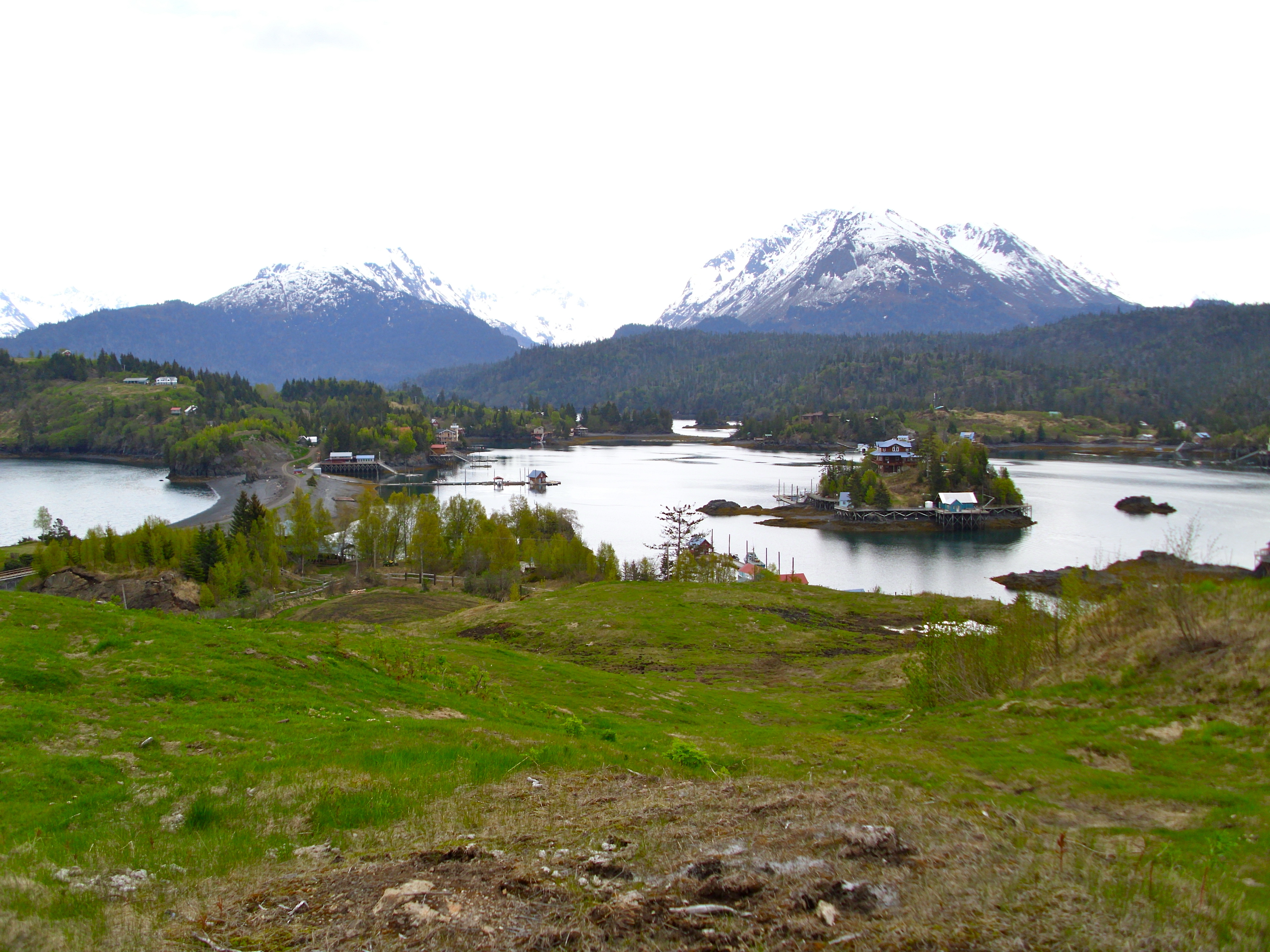 Halibut Cove, Alaska seen from a hilltop